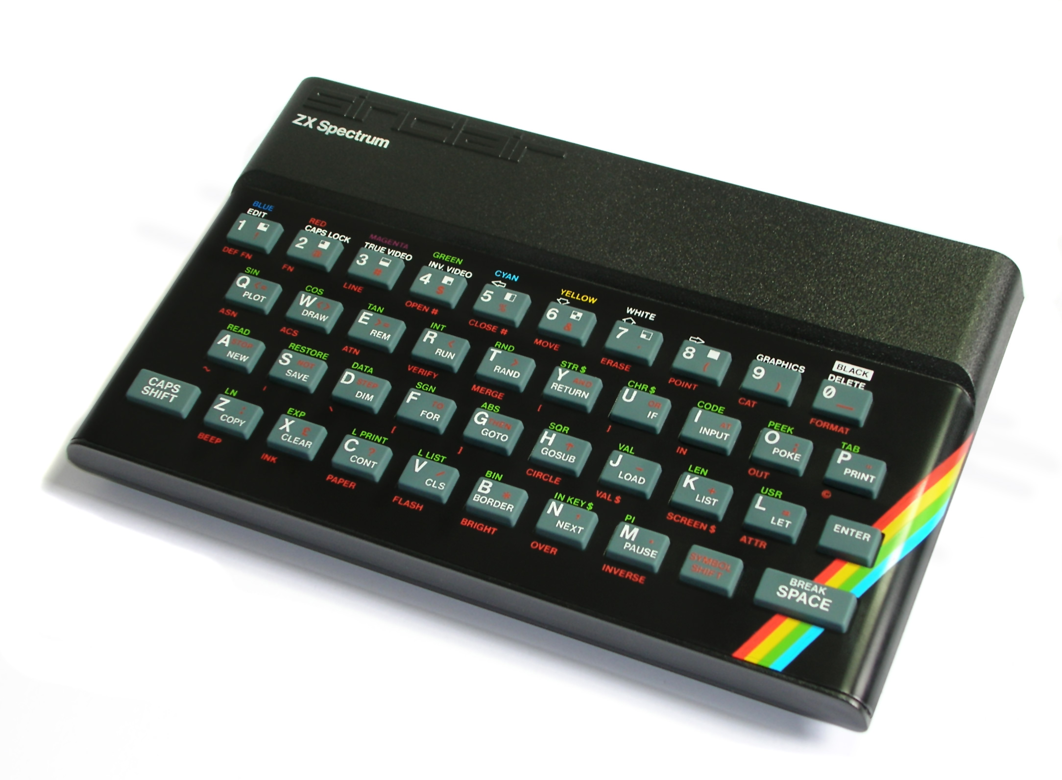 Sinclair 48K ZX Spectrum computer (1982)